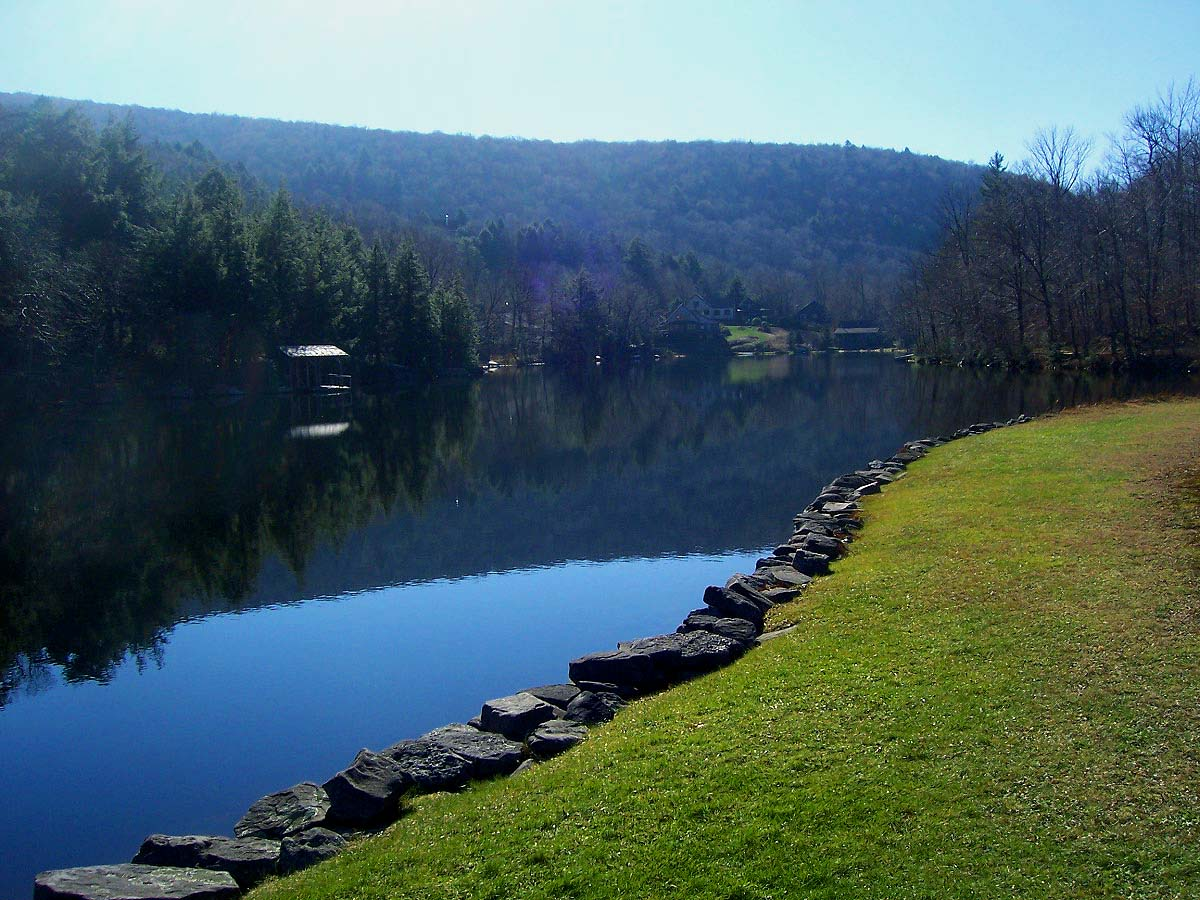 Photographed by Daniel Case 2005-11-12